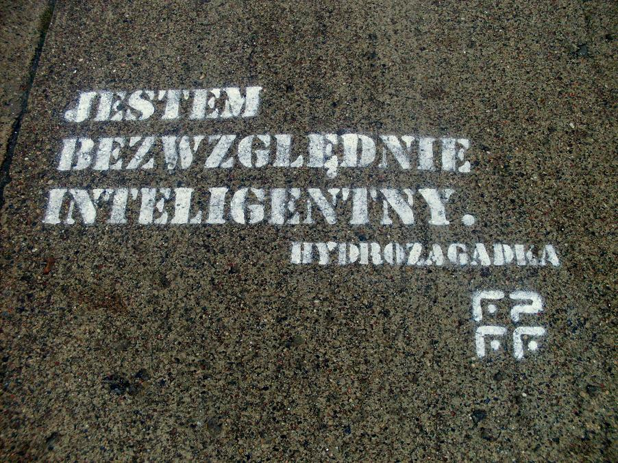 Quotation from film 'Hydrozagadka' advertising XXXIV Polish Film Festival in Gdynia 2009. This photo was made in Bulwar Nadmorski few weeks after the entertainment.